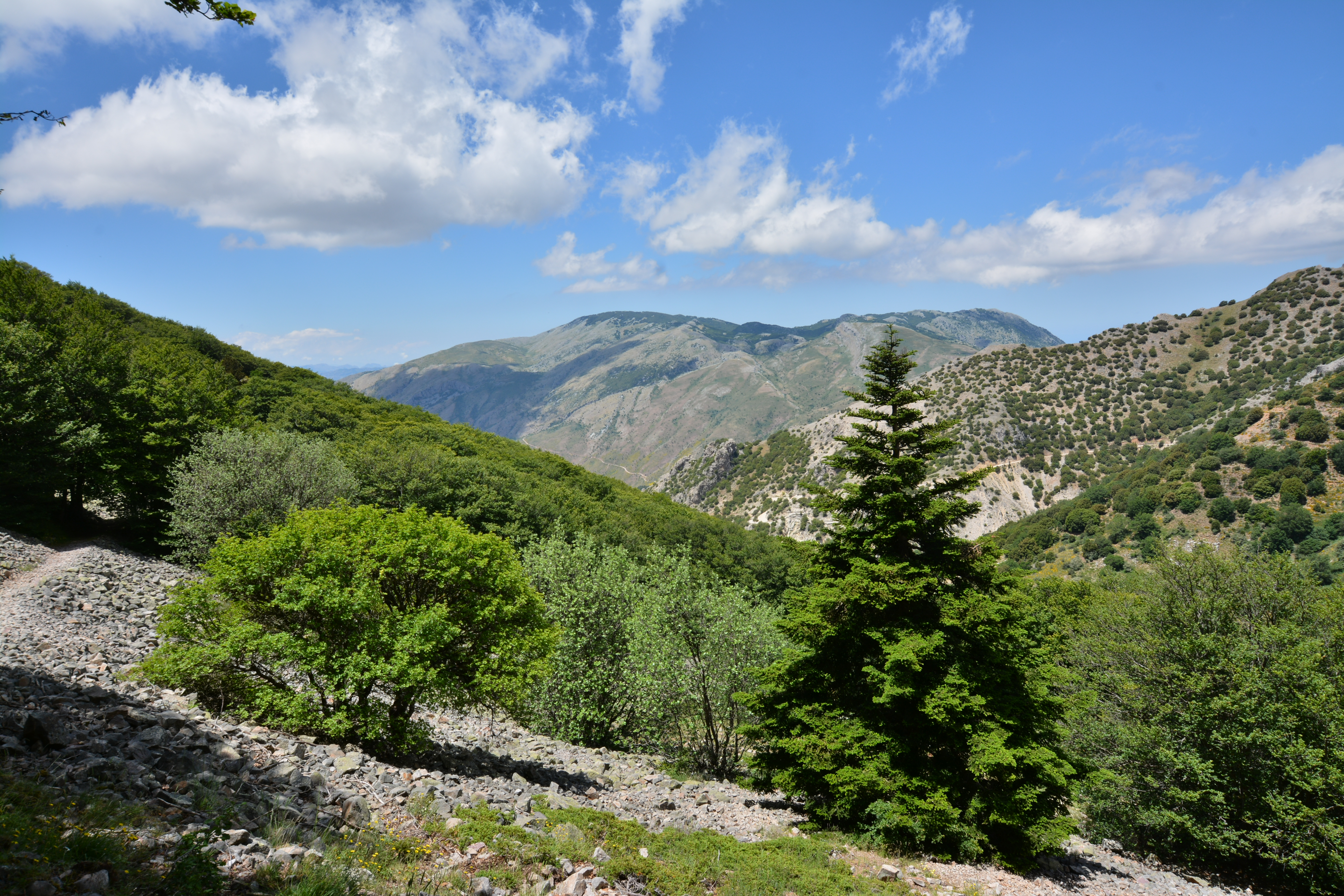 Abies nebrodensis in the "Madonie" natural park (Sicily)